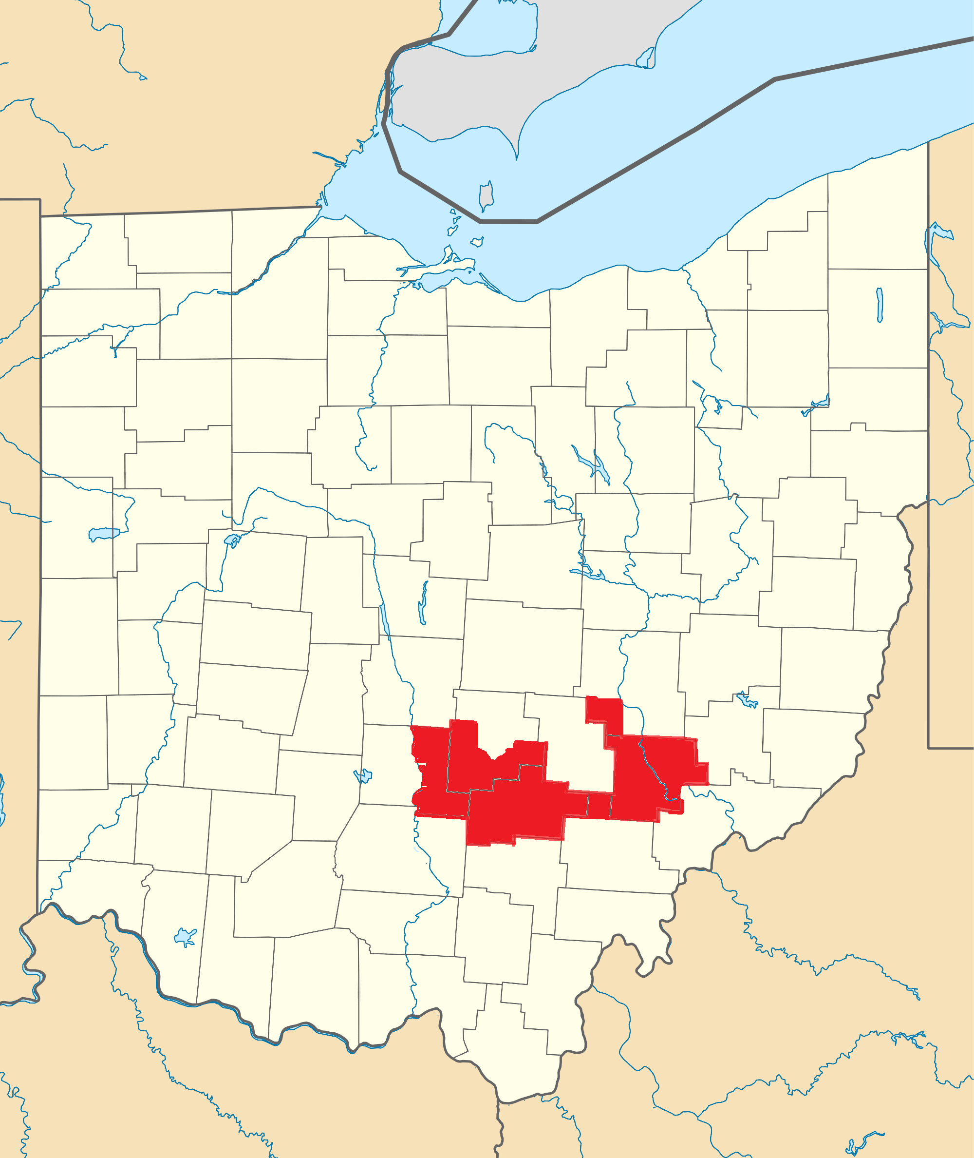 View of Ohio House, 78th District